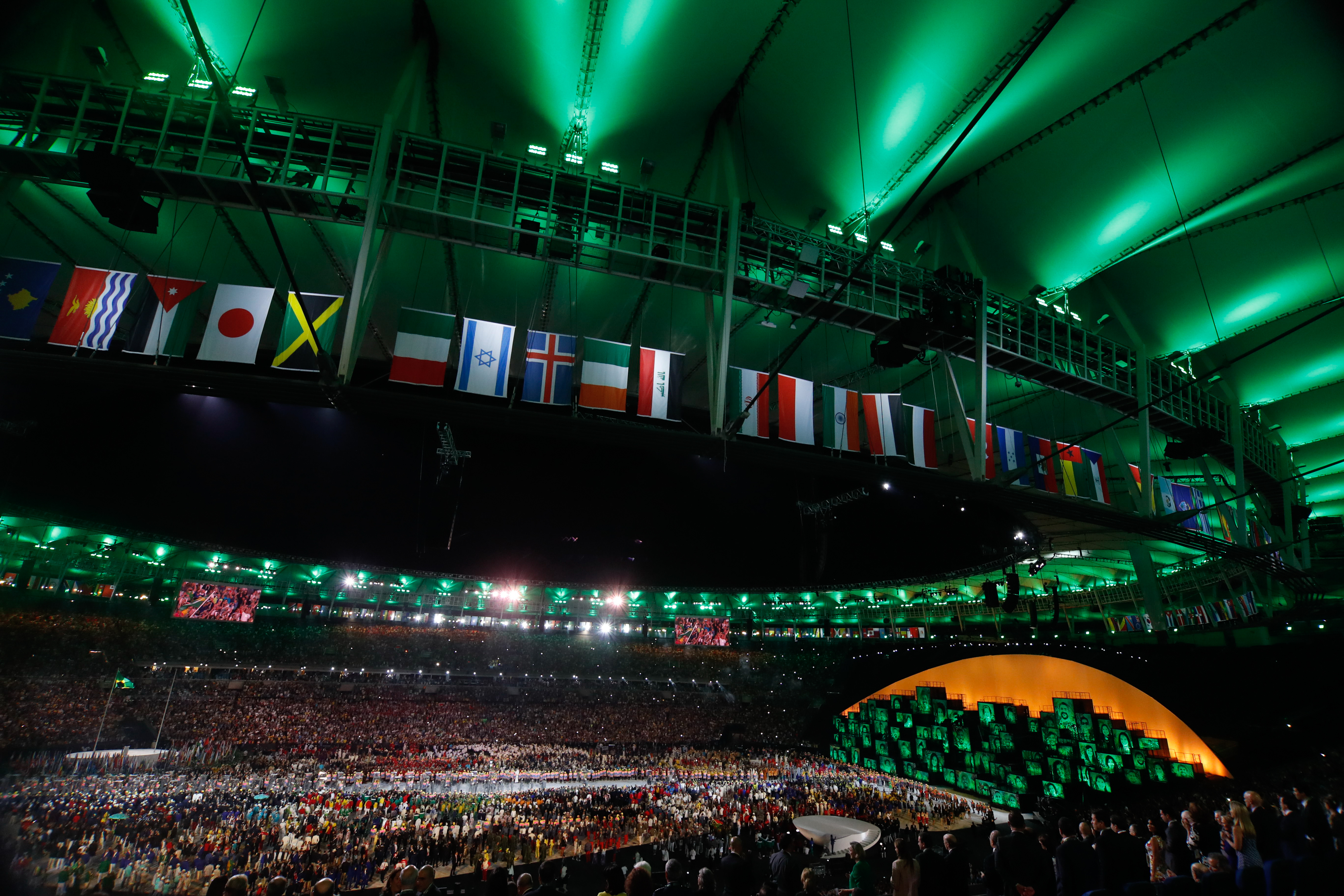 Rio de Janeiro - Cerimônia de abertura dos Jogos Olímpicos Rio 2016 no Estádio do Maracanã. (Fernando Frazão/Agência Brasil)